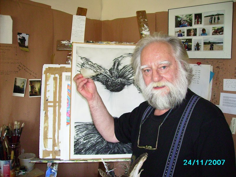 Claus Mayrhofer Barabbas